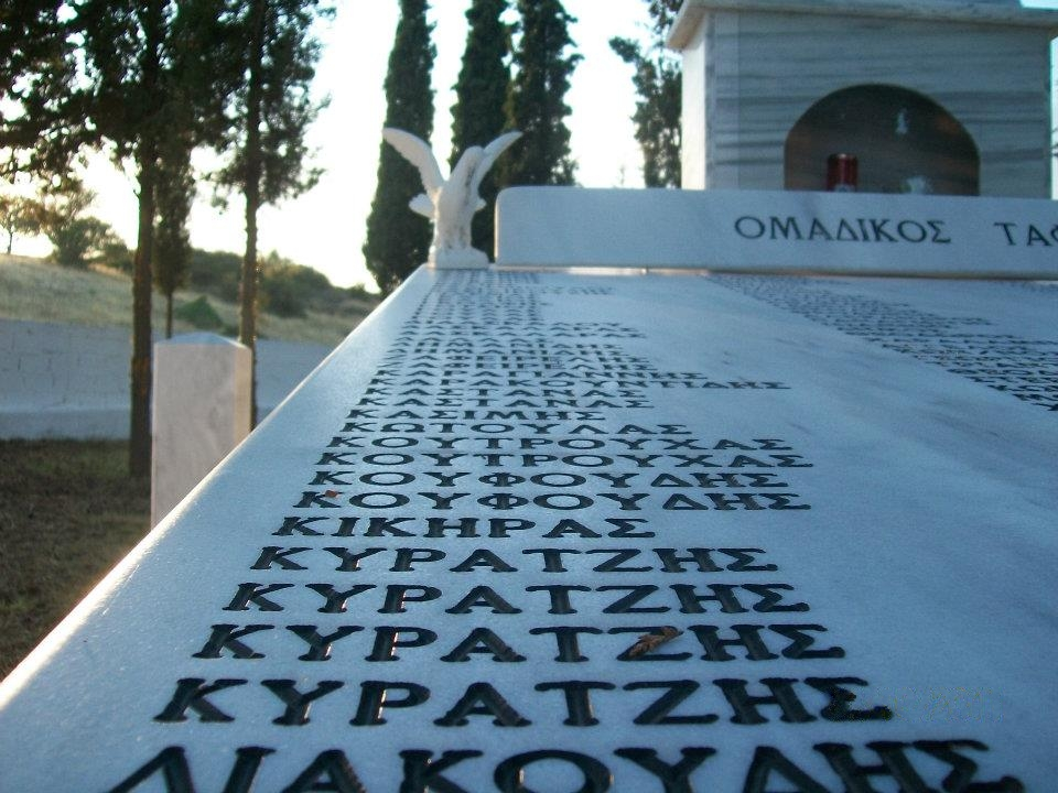 Closer caption of the sign-Kato Kerdylia Memorial.